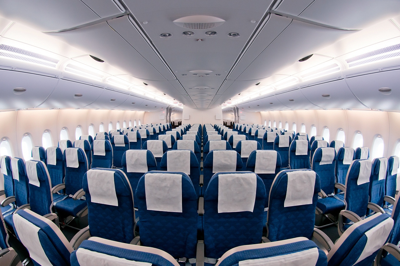 Cabin econom class 2nd A-380 for Korean Air